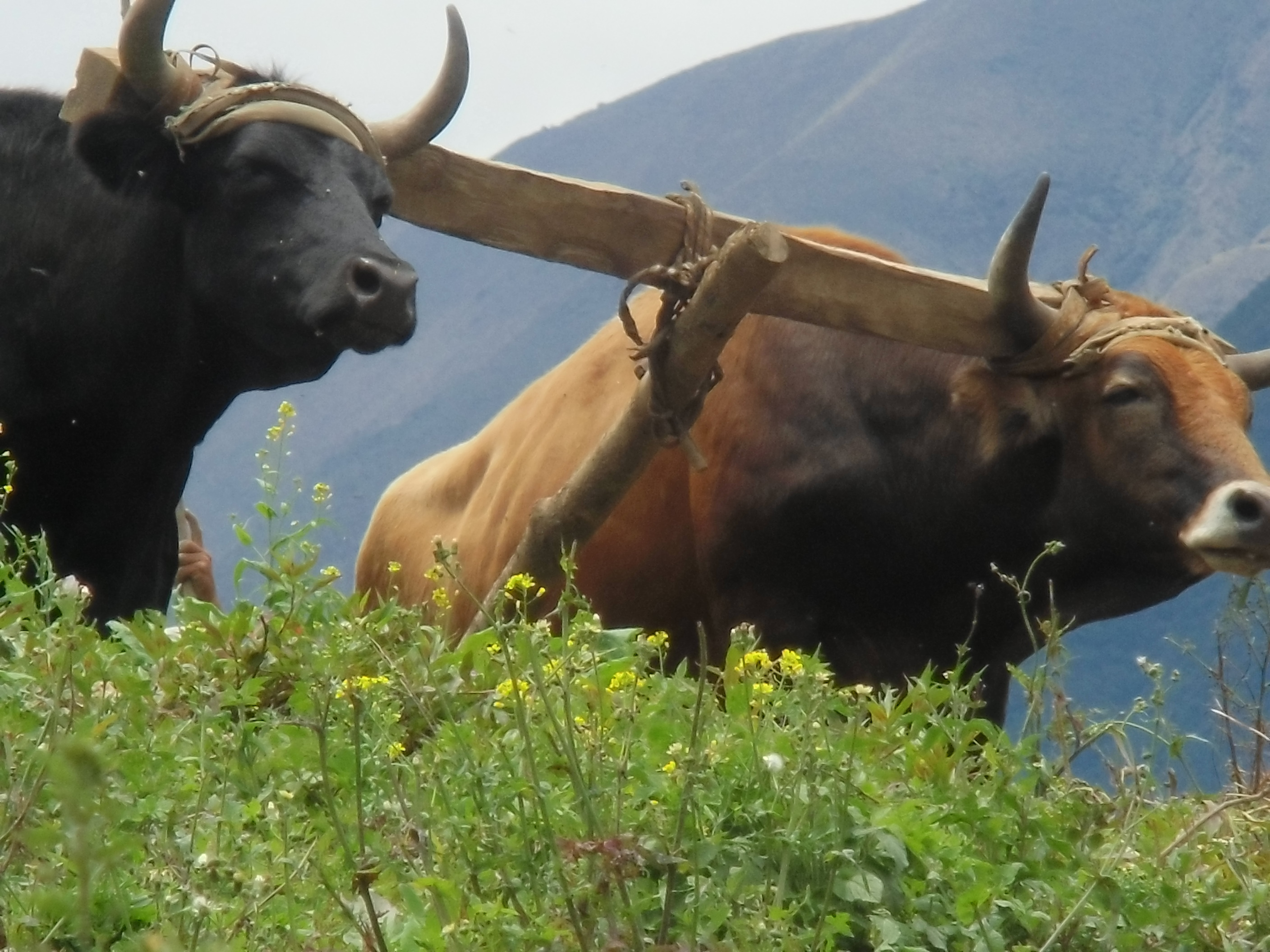 plow land to grow vegetables